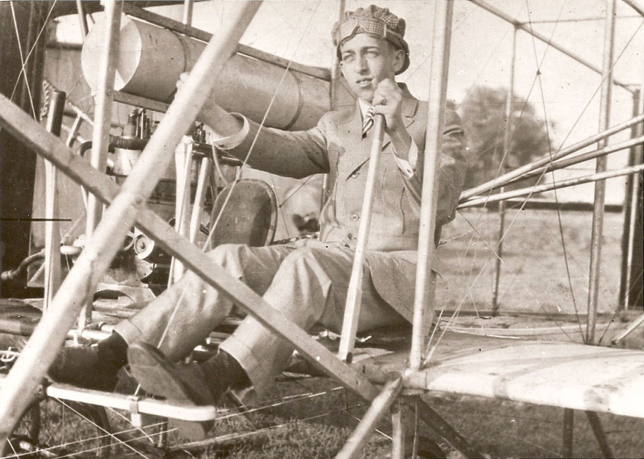 Curtiss LaQ Day in an airplane, 1914.